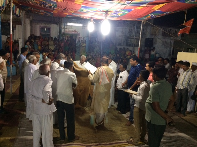 Celerbration of Shree Ram Navmi at Shree Ram Mandir, Nizar as a part of traditional overnight Bhajan and Jagaran Utsav.